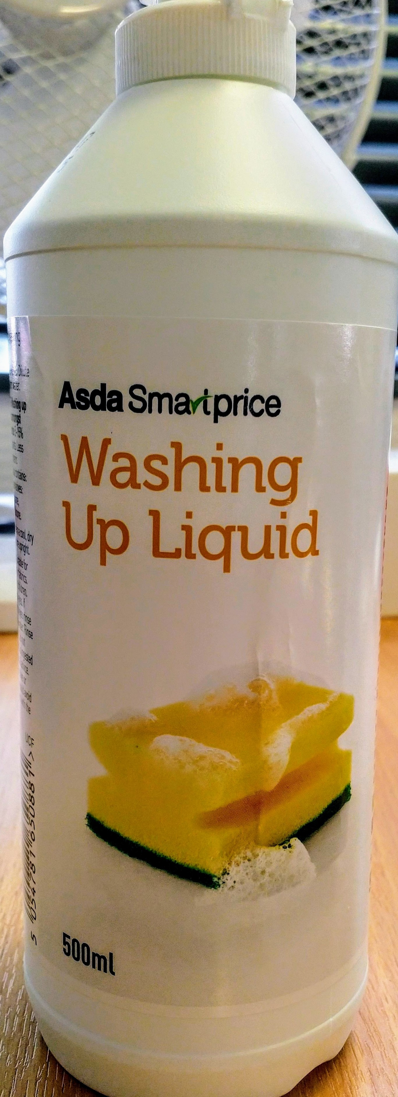 An image showing a bottle of Asda Smartprice washing up liquid.